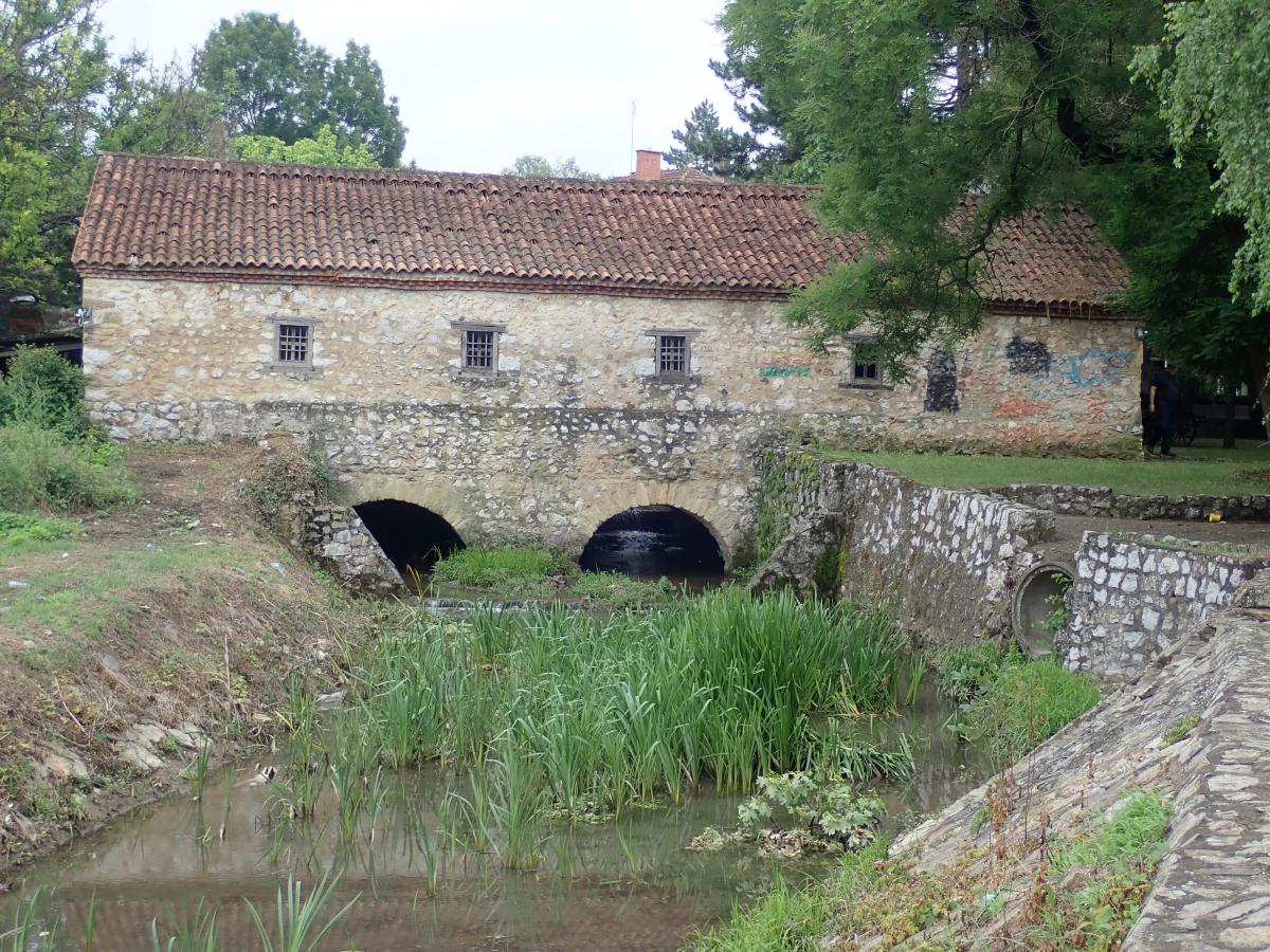 vodenica despotovac